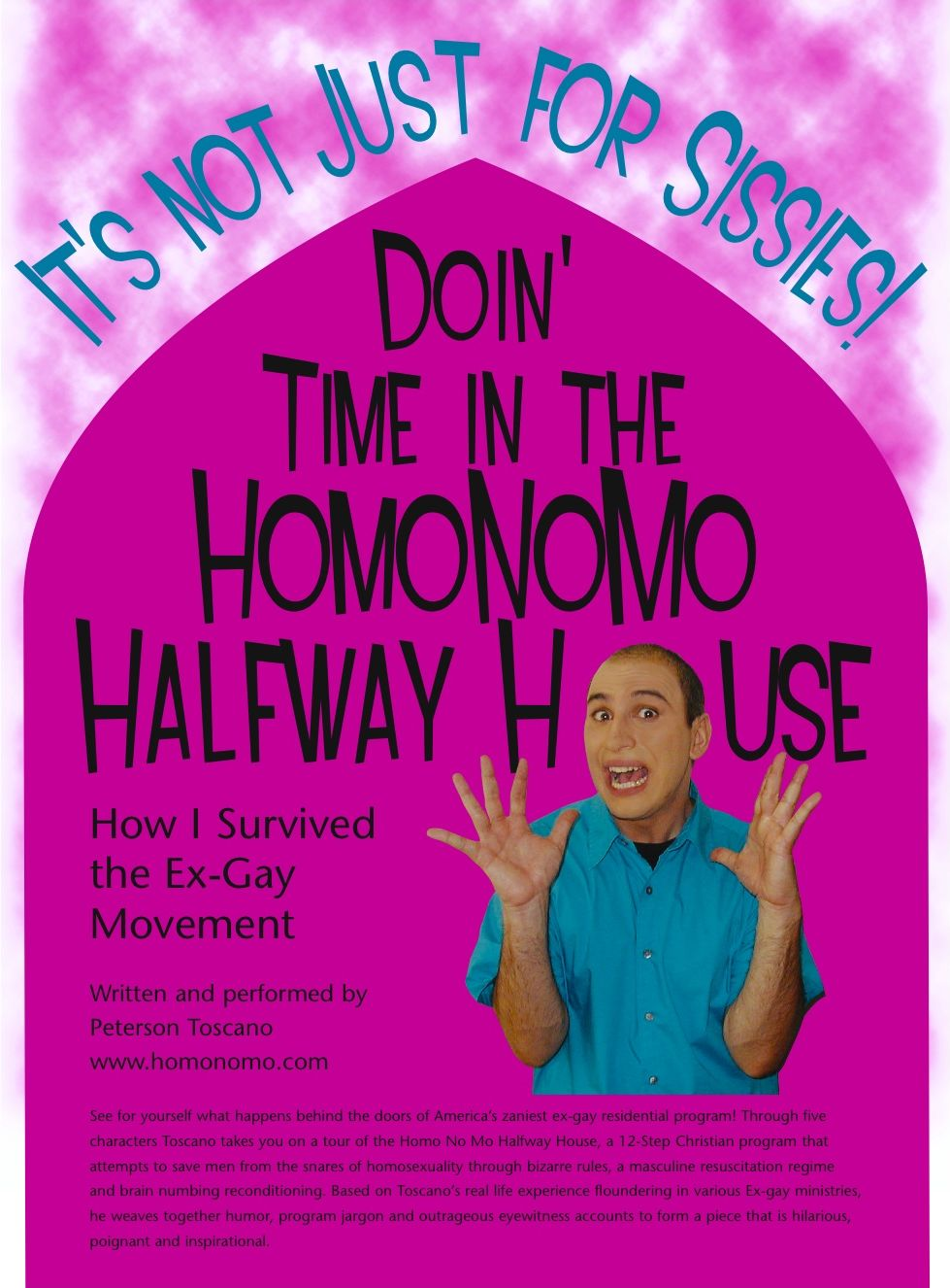 Poster for the play Doin' Time in the Homo No Mo Halfway House - How I Survived the Ex-Gay Movement from Peterson Toscano